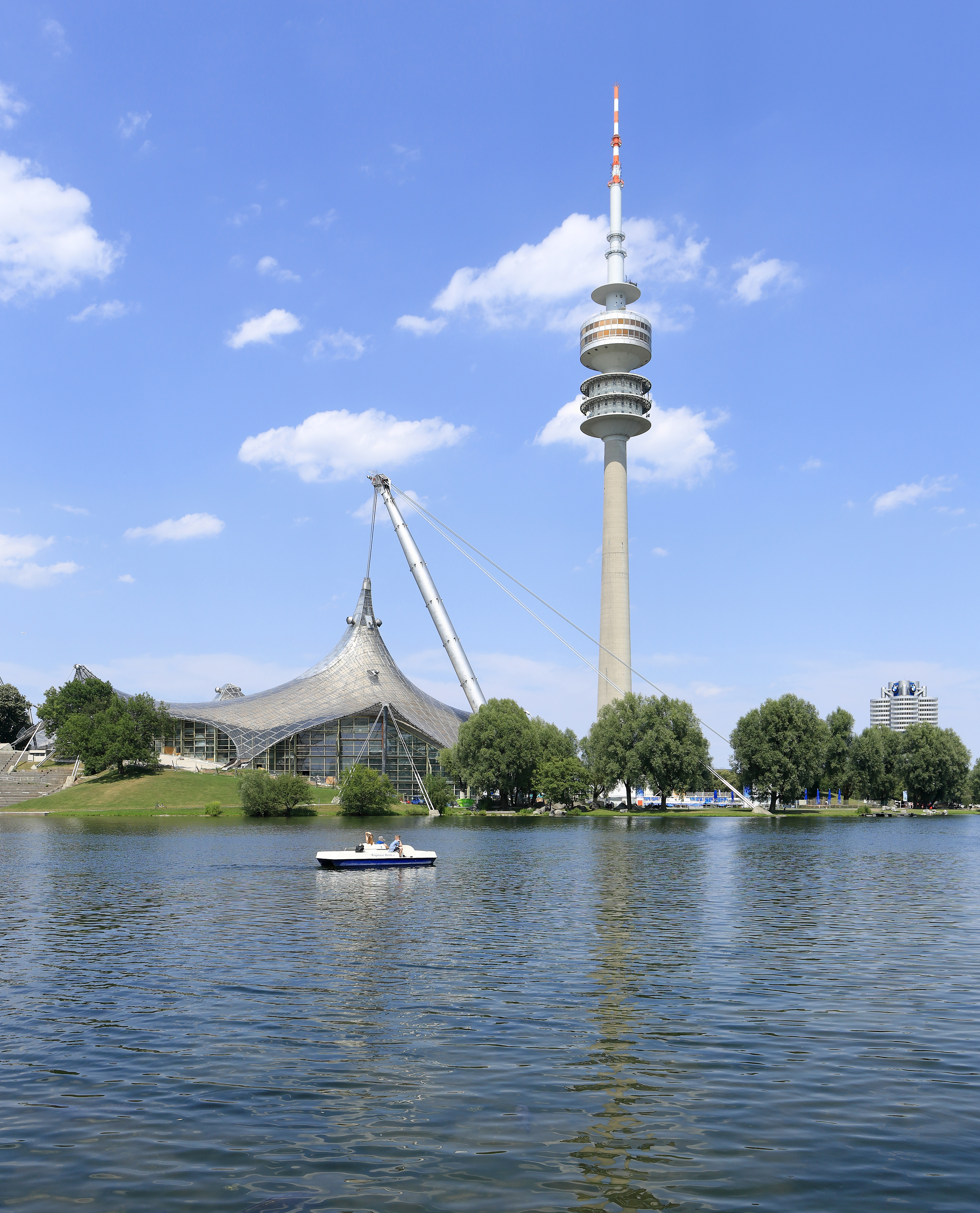 Olympic Aquatic Center and Olympic Tower, Munich